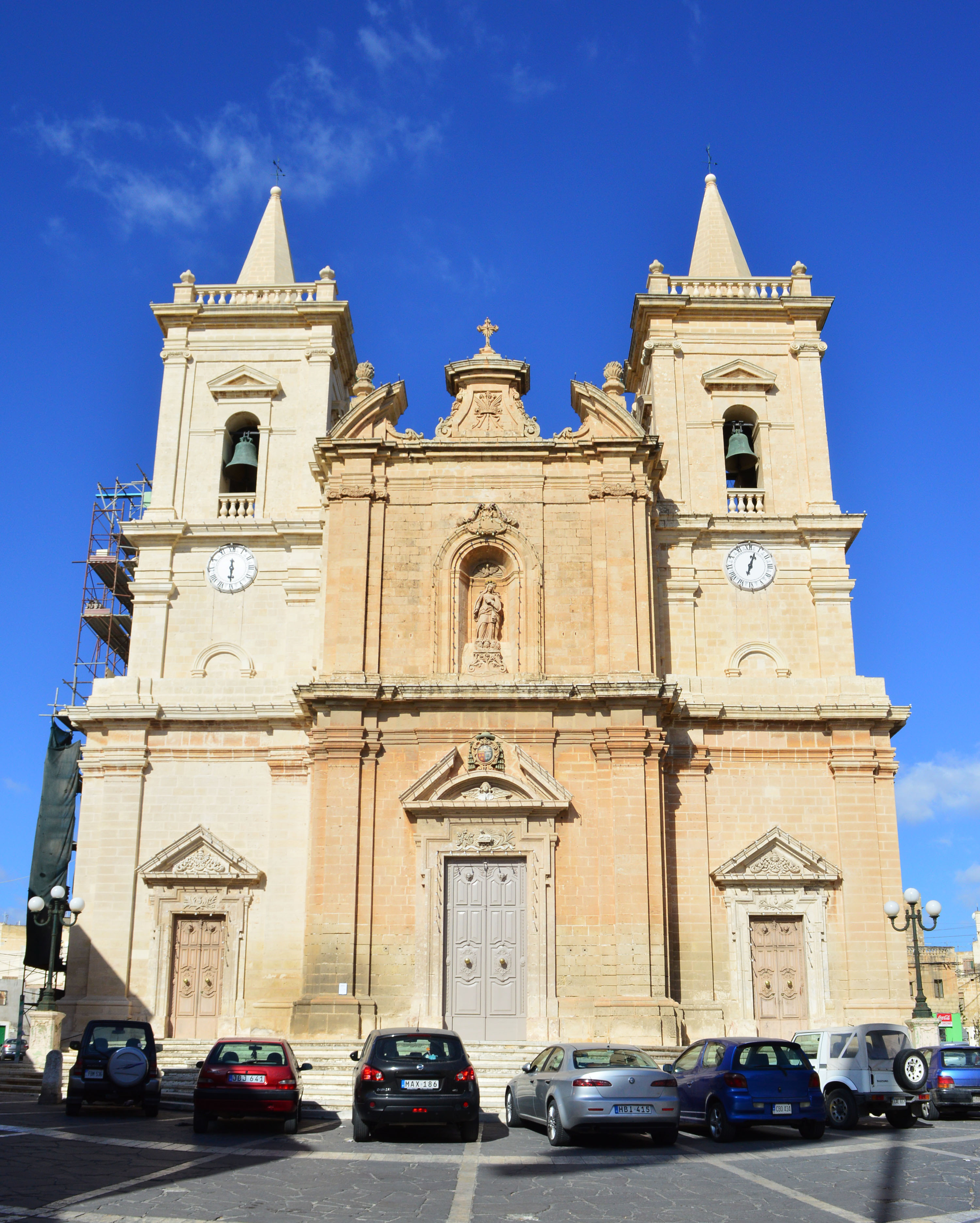 This media is about Maltese cultural property with inventory number 02045.